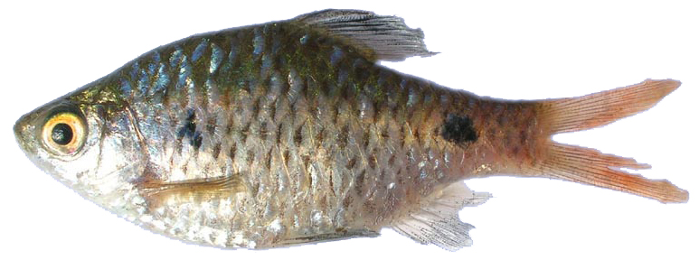 Puntius ticto Fish Species Puntius amphibious